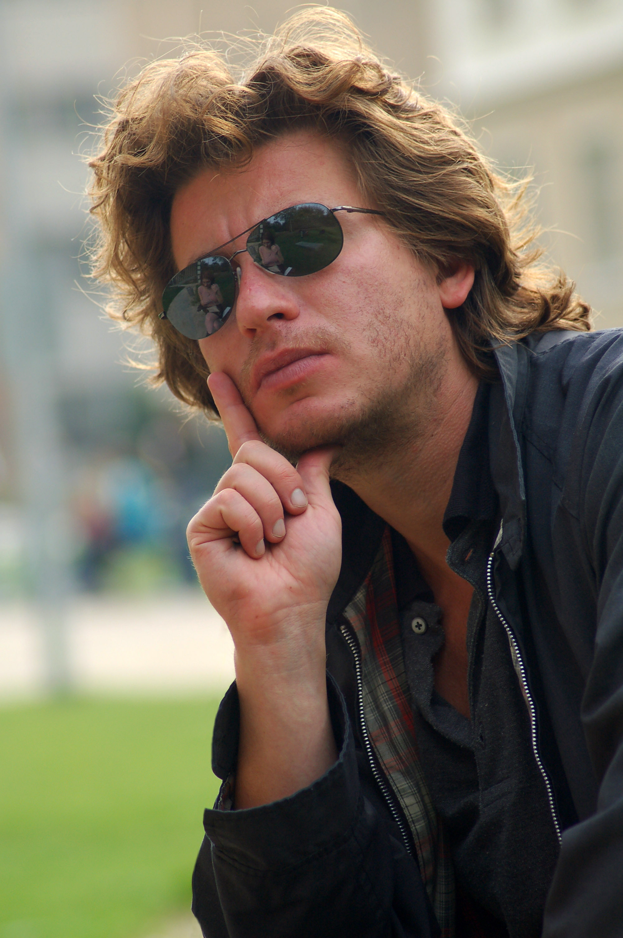 Hungarian film director, Ferenc Török.